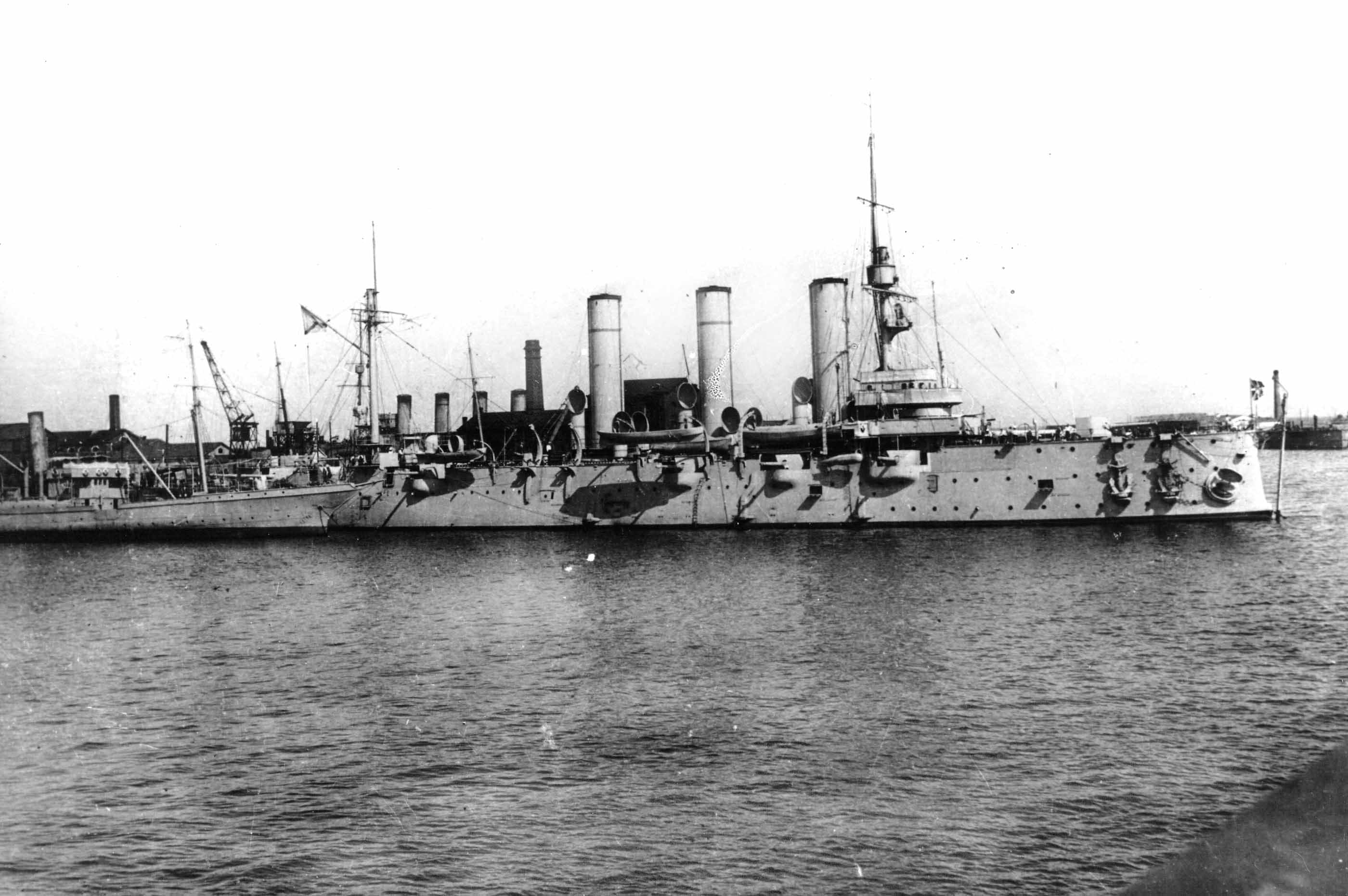 Cruiser Avrora at the Franco-russkiy factory, 1917.